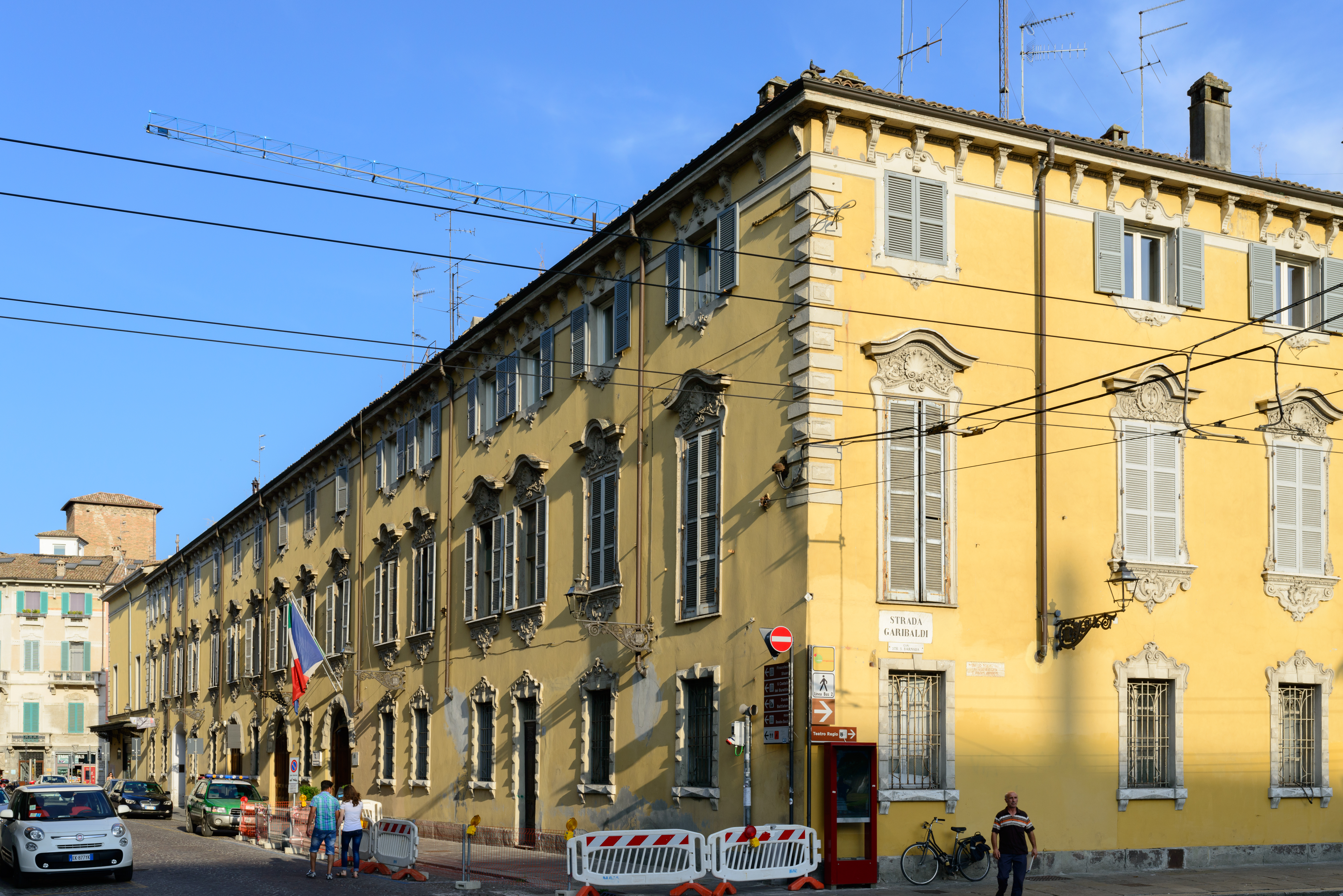 Palazzo di Riserva via Garibaldi, Parma, Emilia-Romagna, Italy.